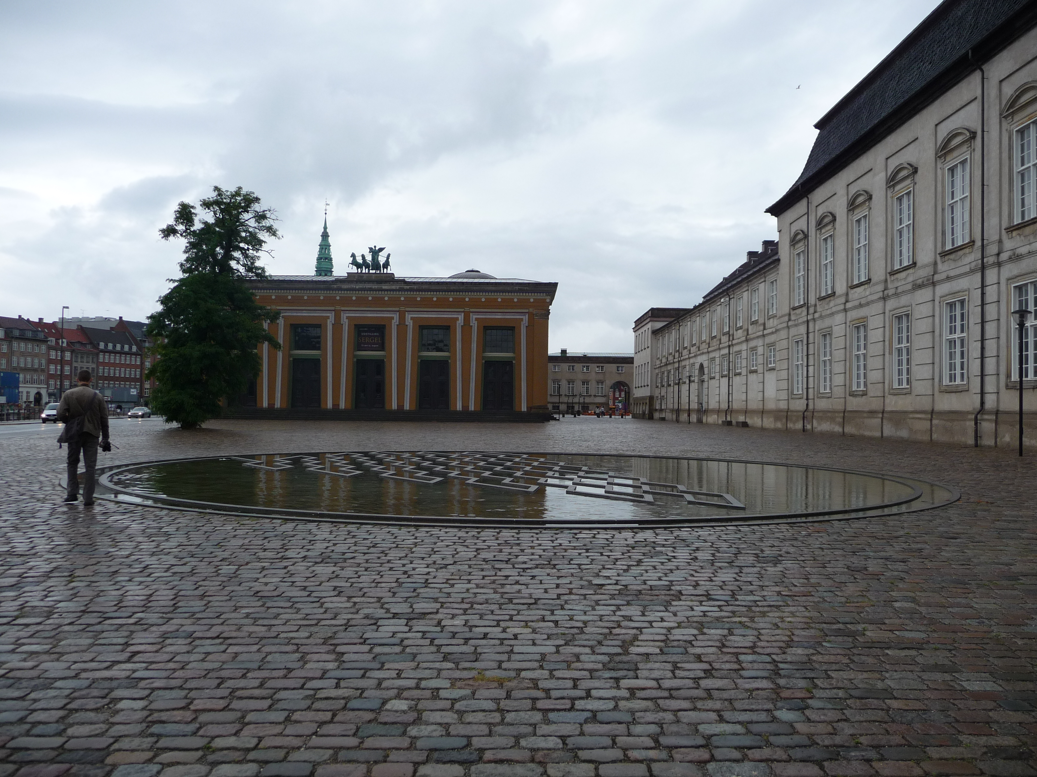 Bertel Thorvaldsens Plads in Copenhagen, Denmark. The water feature in the foreground is created by sculptor Jørn Larsen